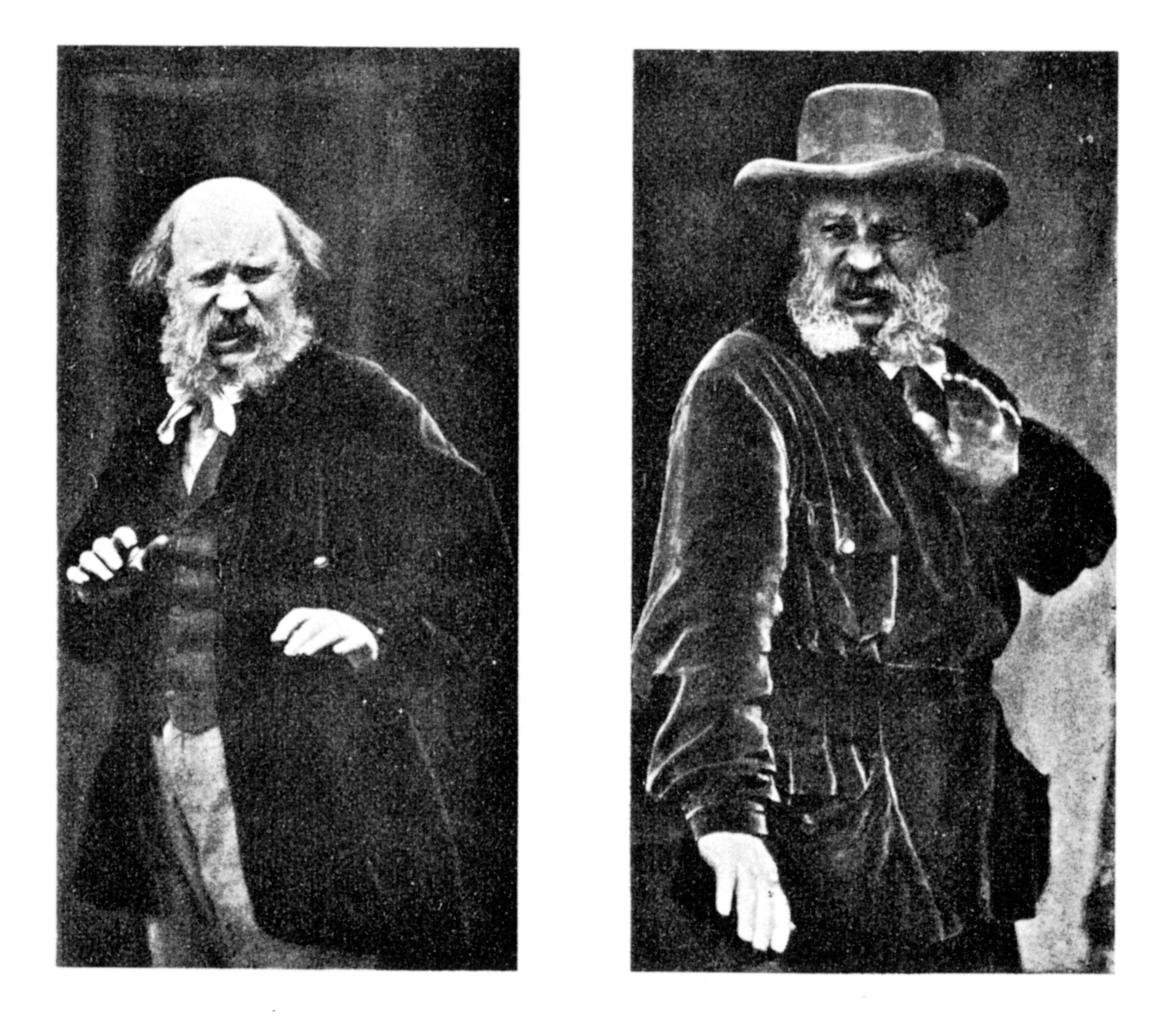 "Disgust": Detail from Plate V, Nr. 2 and 3, from Charles Darwin's The Expression of the Emotions in Man and Animals. From Chapter XI: Disdain—Contempt—Disgust—Guilt—Pride, etc.—Helplessness—Patience—Affirmation and negation. Self-portraits by O. G. Rejlander